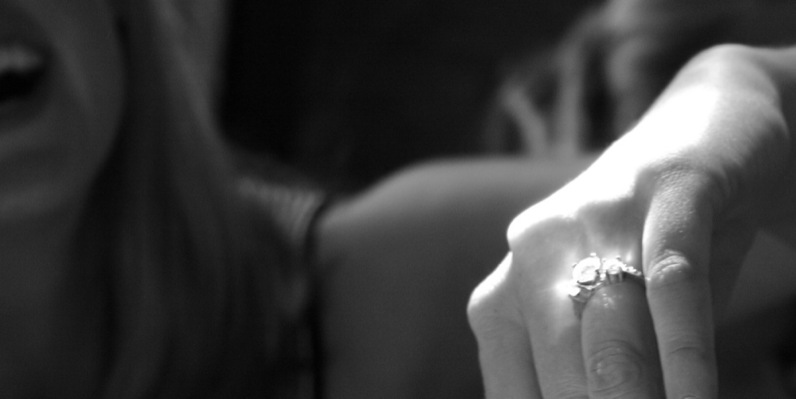 An advertising agency account executive in Memphis, Tennessee, playfully shows off her new engagement ring in a shaft of direct sunlight during a meeting.